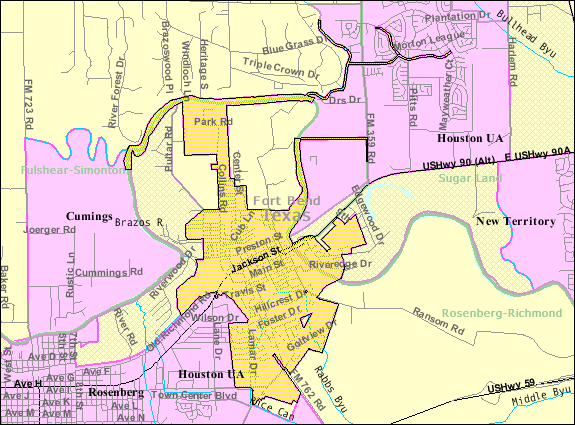 Map of Richmond, Texas